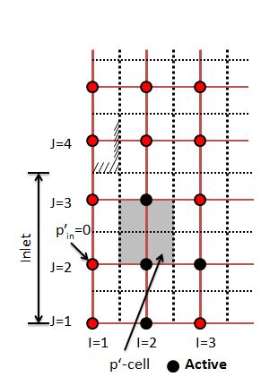 pressure correction cell at intake boundary